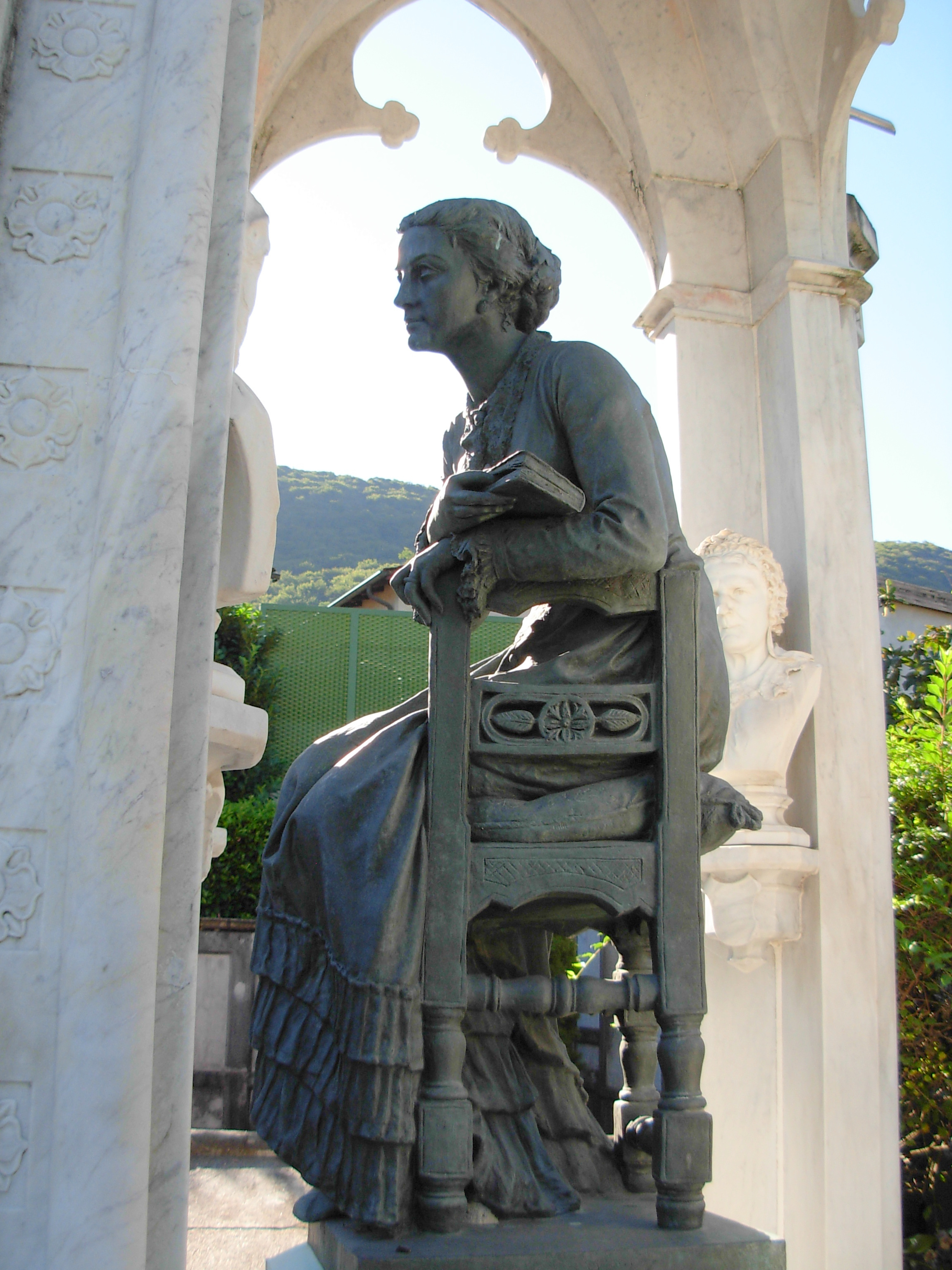 Statue La Meditazione made by Vincenco Vela in Grancia (Tessin, Switzerland)